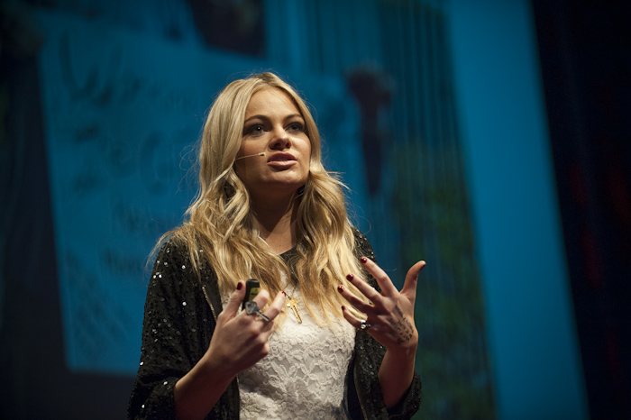 American singer and actress Caitlin Crosby speaks at TEDx Bend (Bend, Oregon) on "Love is the Key".